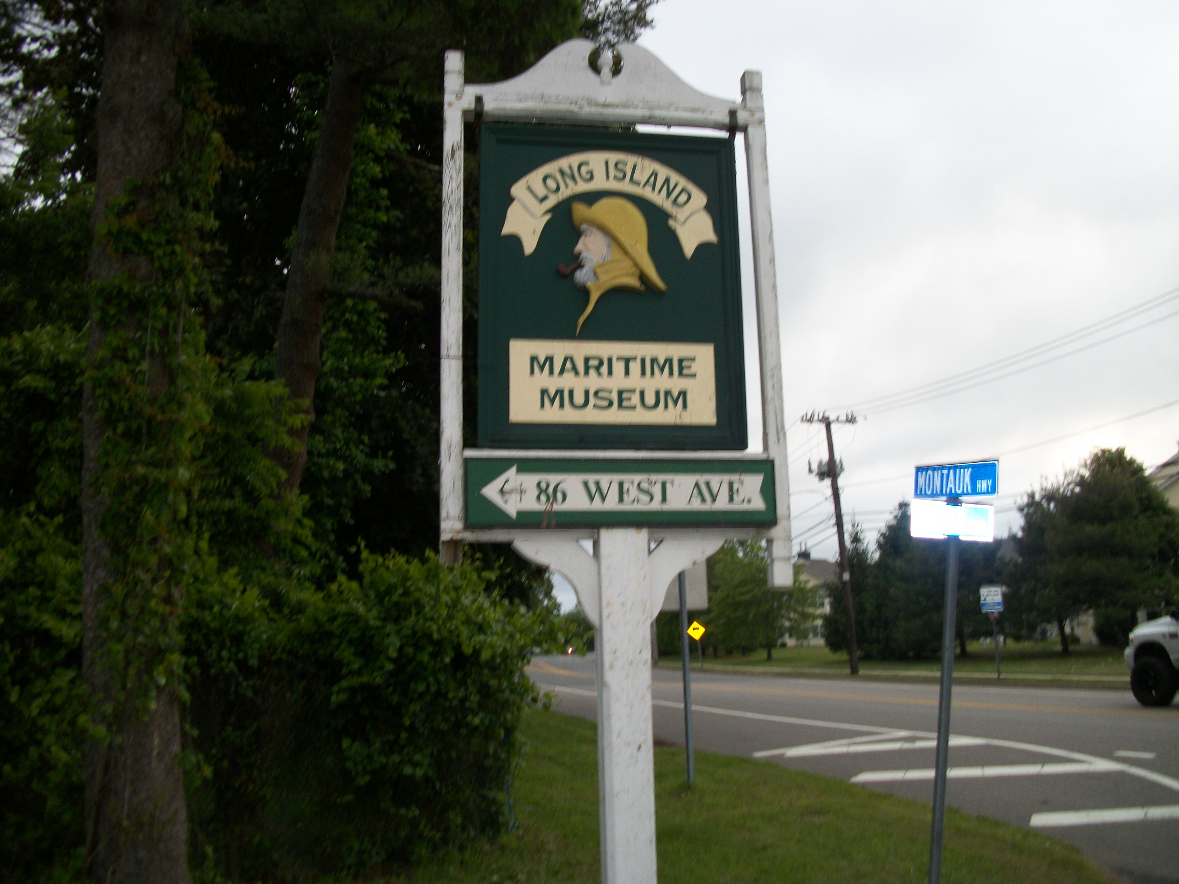 Sign for the entrance to the Long Island Maritime Museum in West Sayville, New York.